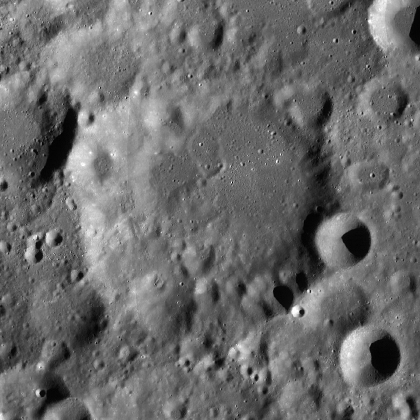 Krylov crater, on the far side of the moon. LRO Wide Angle Camera mosaic.